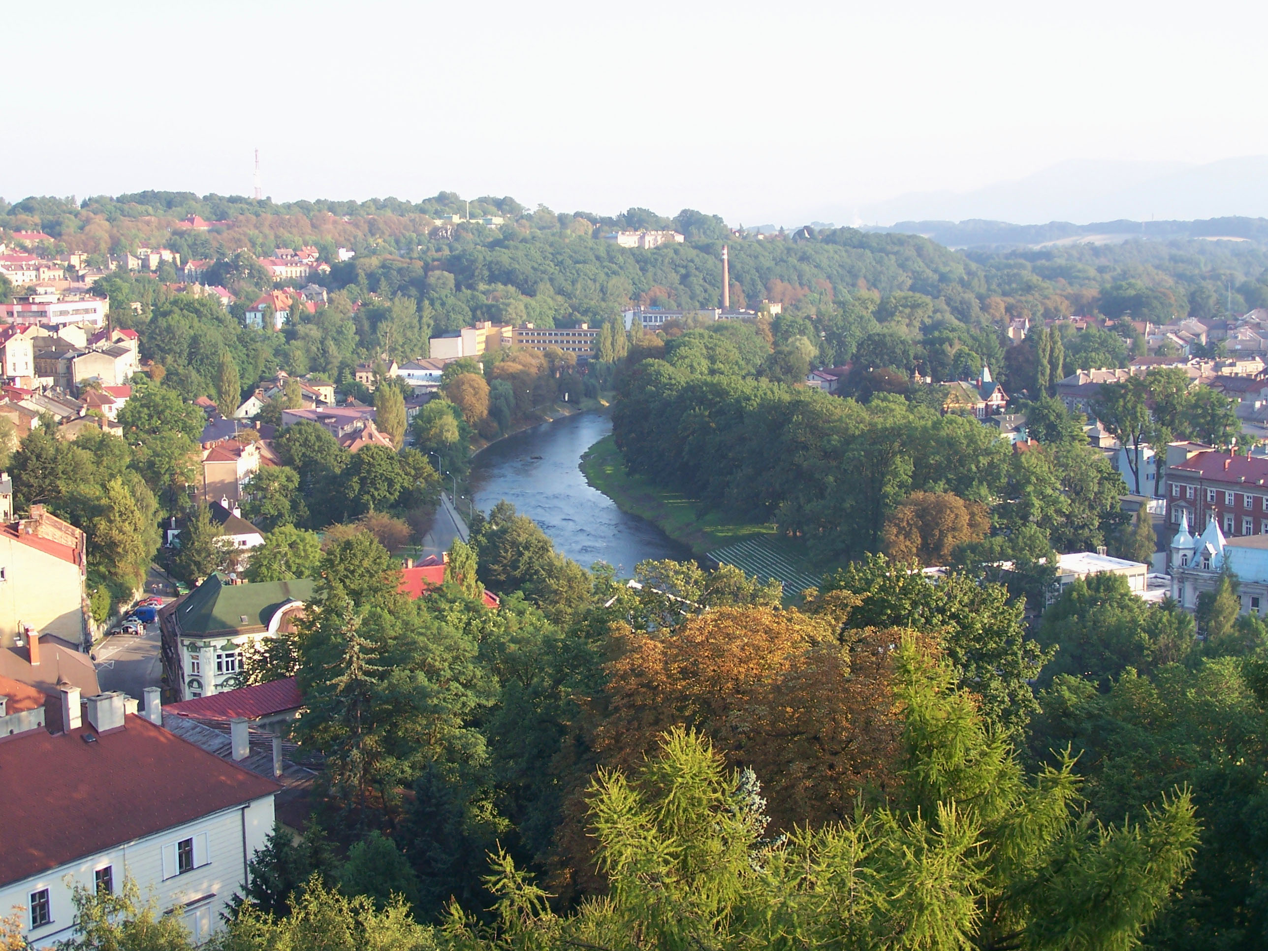 Divided city. Cieszyn (left), Olza River (centre) and Český Těšín (right). View from the Piast Tower.